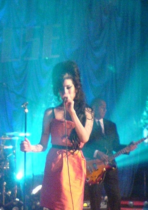 Winehouse BBC